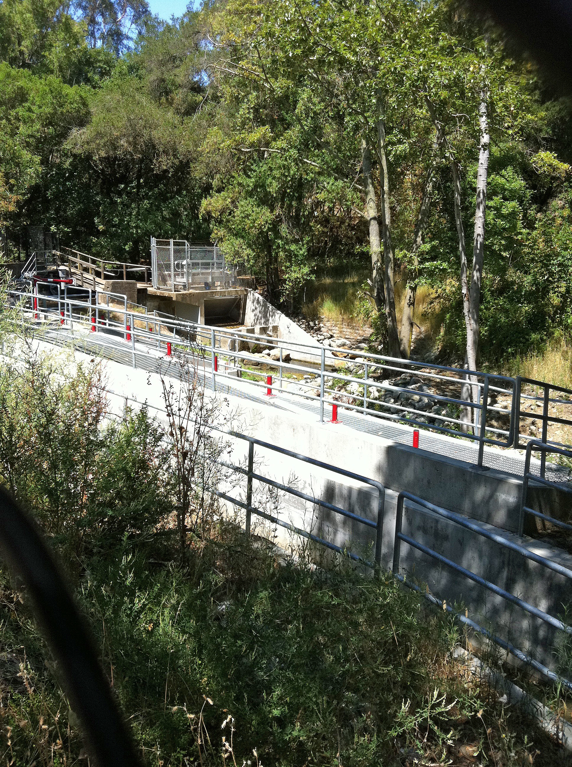 Stanford University replaced their old non-functional fish ladder on Los Trancos Creek in the Jasper Ridge Biological Preserve so that Steelhead trout can get around their diversion dam to a man-made reservoir called Felt Lake. Eastern Santa Cruz Mountains foothills, Stanford University campus, California. The new one does not seem to be working either. In the foreground you can see the old cement ditch that used to divert creek water to Lake Lagunita at Stanford.